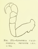 Seventh leg sketch